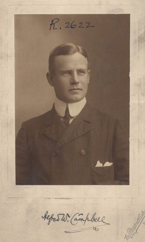 Alfred Walter Campbell